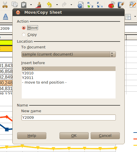 The Move/Copy Sheet dialog was redesigned in LibreOffice 3.4.